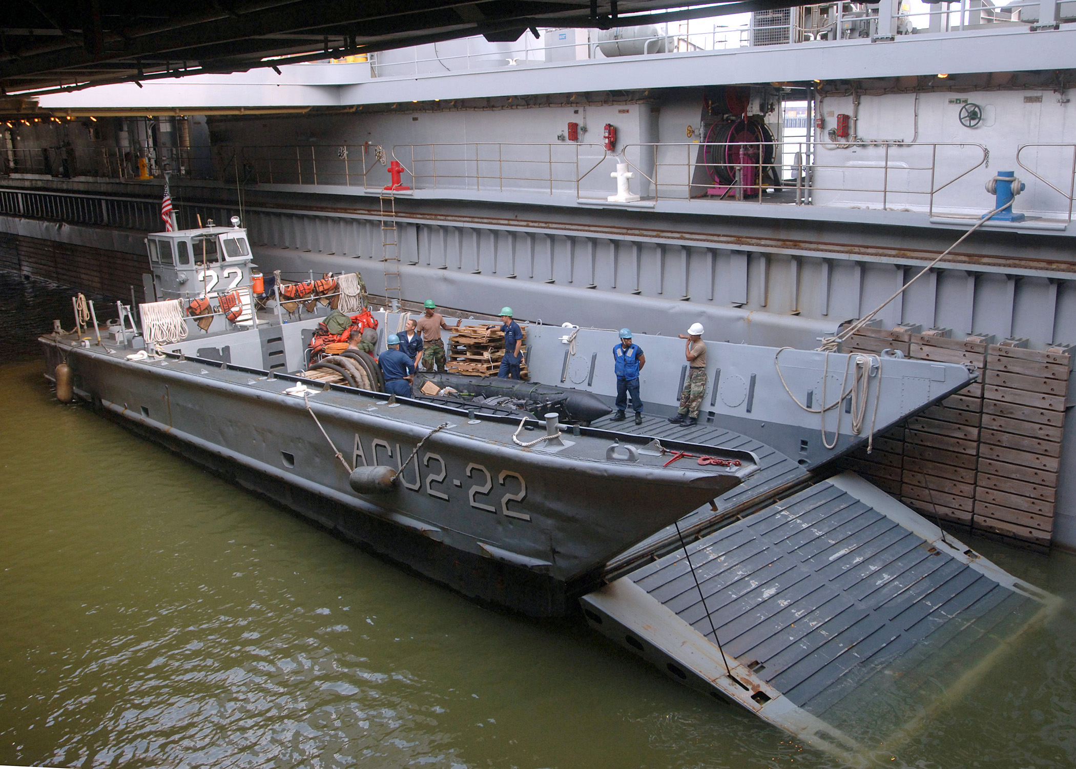 New Orleans (Sept. 10, 2005) - Sailors prepare to unload a combat rubber reconnaissance craft (CRRC) from a Mechanized Landing Craft as it sits in the well deck of the dock landing ship USS Tortuga (LSD 46). Boat crews navigate the CRRC's through the flooded streets of New Orleans while assisting in the rescue and recovery efforts in the wake of Hurricane Katrina. Tortuga is currently moored at Naval Support Activity New Orleans in support of Hurricane Katrina humanitarian assistance operations. The Navy's involvement in the humanitarian assistance operations is being led by the Federal Emergency Management Agency (FEMA), in conjunction with the Department of Defense. U.S. Navy photo by Photographer's Mate 3rd Class Kristopher Wilson (RELEASED)